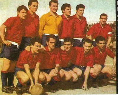 Deportivo Español in 1960. That team won the 1960 Primera C championship.